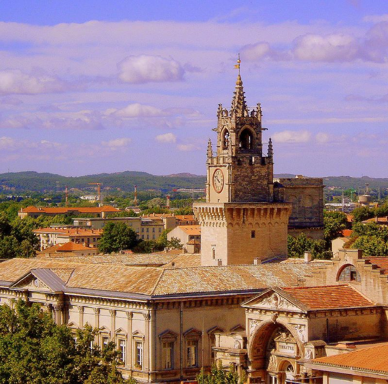 Avignon, France